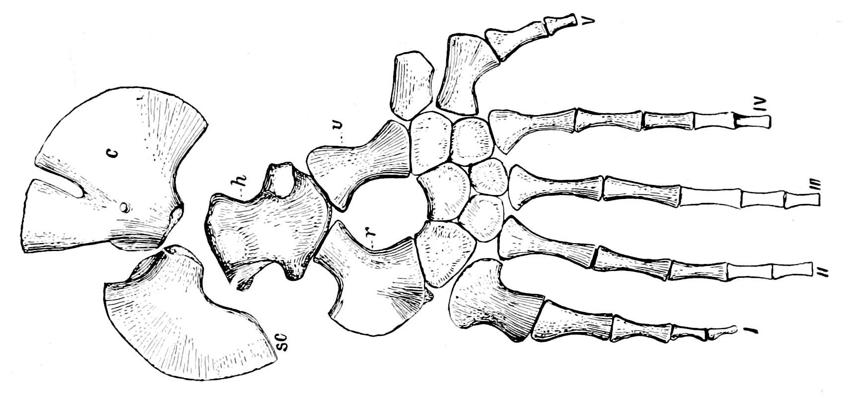 Illustration of Clidastes left front paddle from The Osteology of the Reptiles (1925)